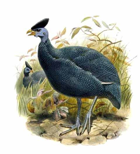 Guttera plumifera